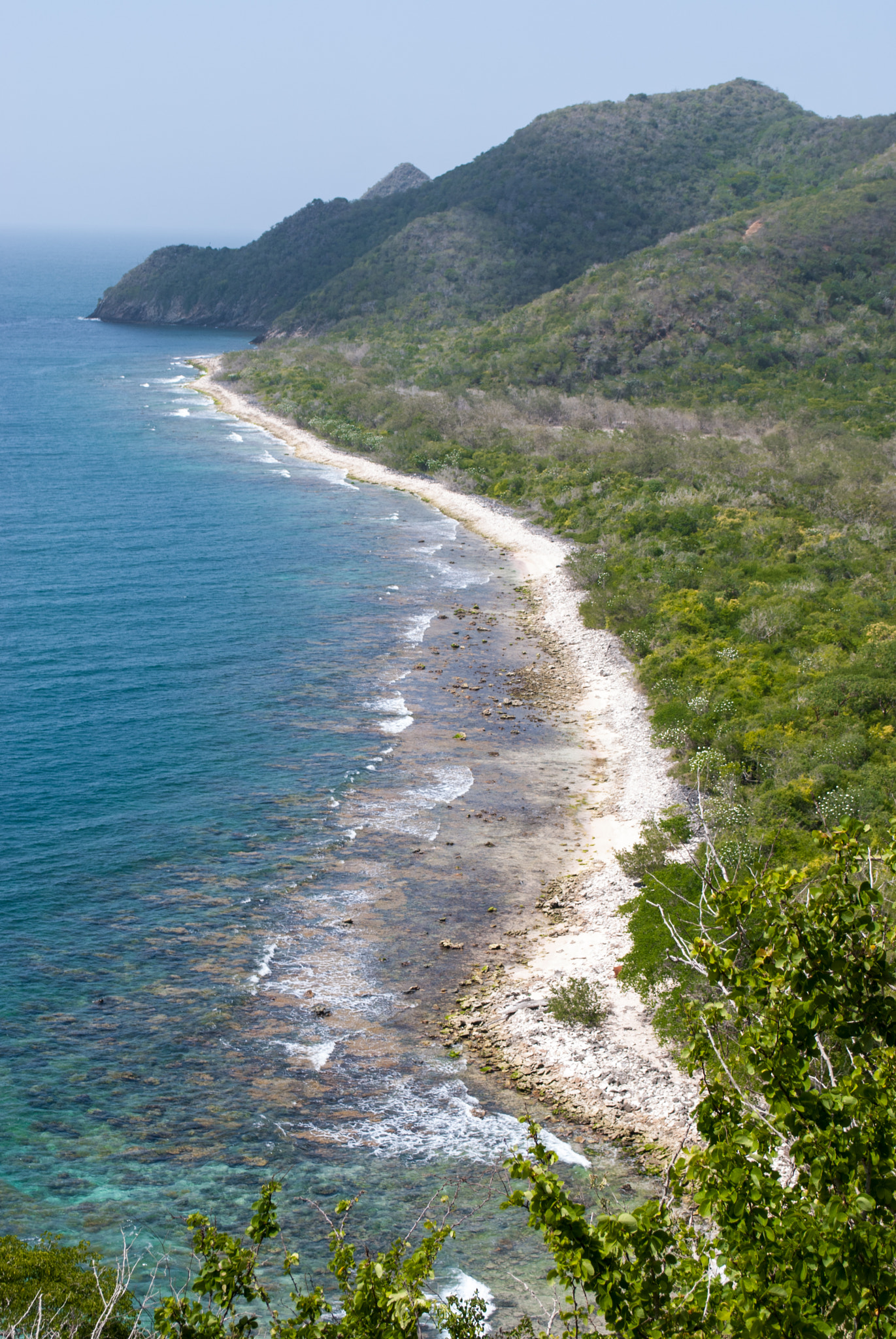 500px provided description: This is the view from the "Mirador de patanemo" on the path to Yapascua a cove of turquoise waters surrounded by mountains. [#sea ,#water ,#nature ,#beach ,#coastline ,#ocean ,#plants ,#highlands ,#mountain ,#sunny ,#hiking ,#coral ,#turquoise ,#venezuela ,#tropic ,#adventure ,#tropical ,#reef ,#backpackers ,#coasts]